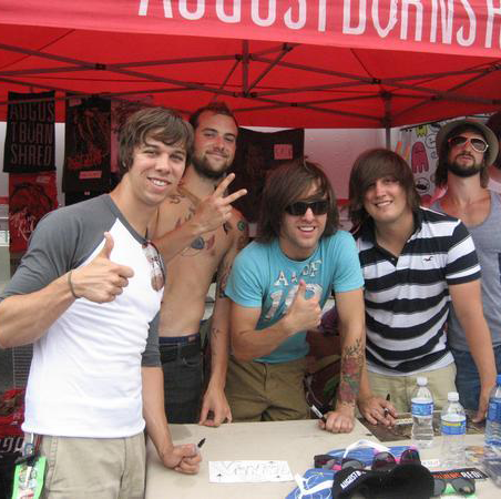 August Burns Red at Warped Tour in Bonner Springs, KS. From left to right: JB Brubaker, Jake Luhrs, Dustin Davidson, Brent Rambler, and Matt Greiner